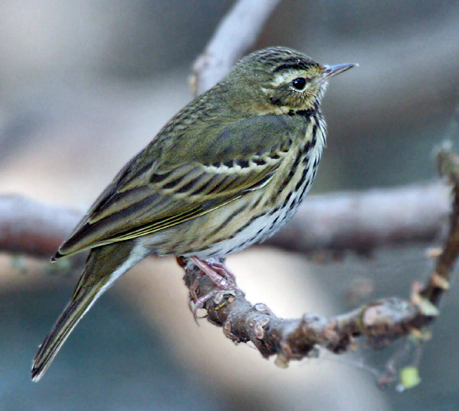 Olive-backed Pipit Anthus hodgsoni at Bracebridge in Kolkata, West Bengal, India.